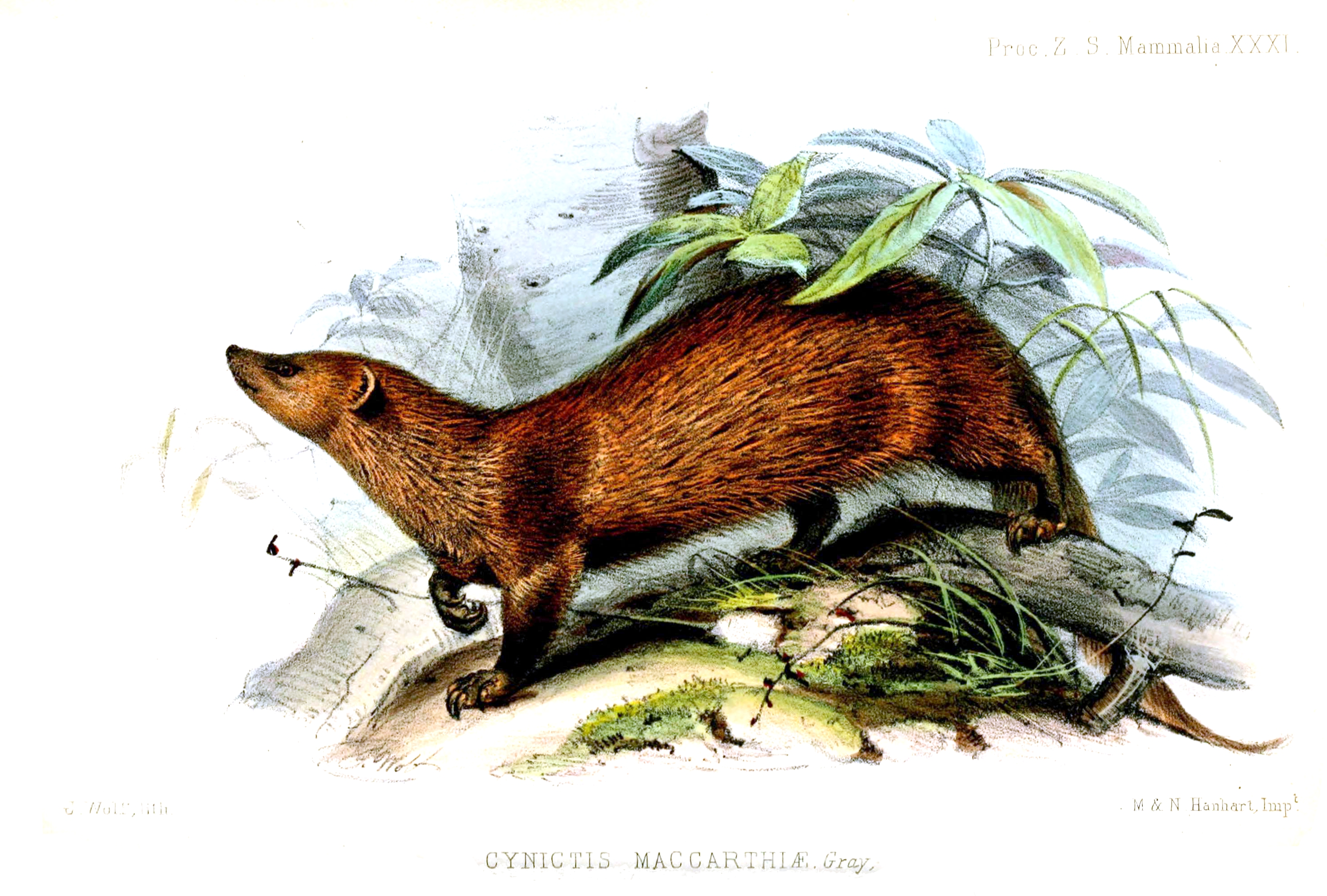 Cynictis maccarthiae = Herpestes fuscus maccarthiae